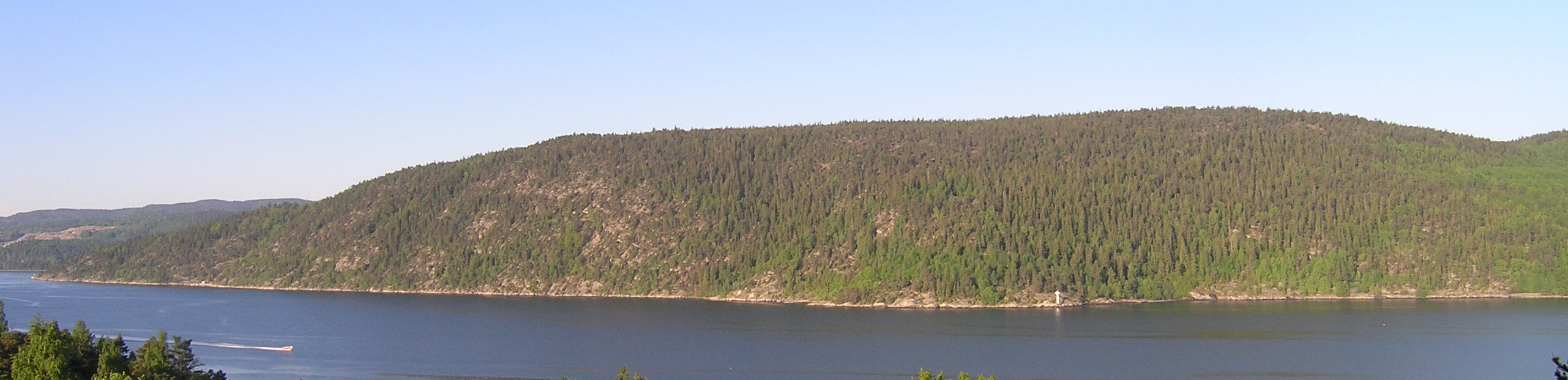 The southeastern part of Håøya in Drøbaksundet, Oslofjorden, Norway